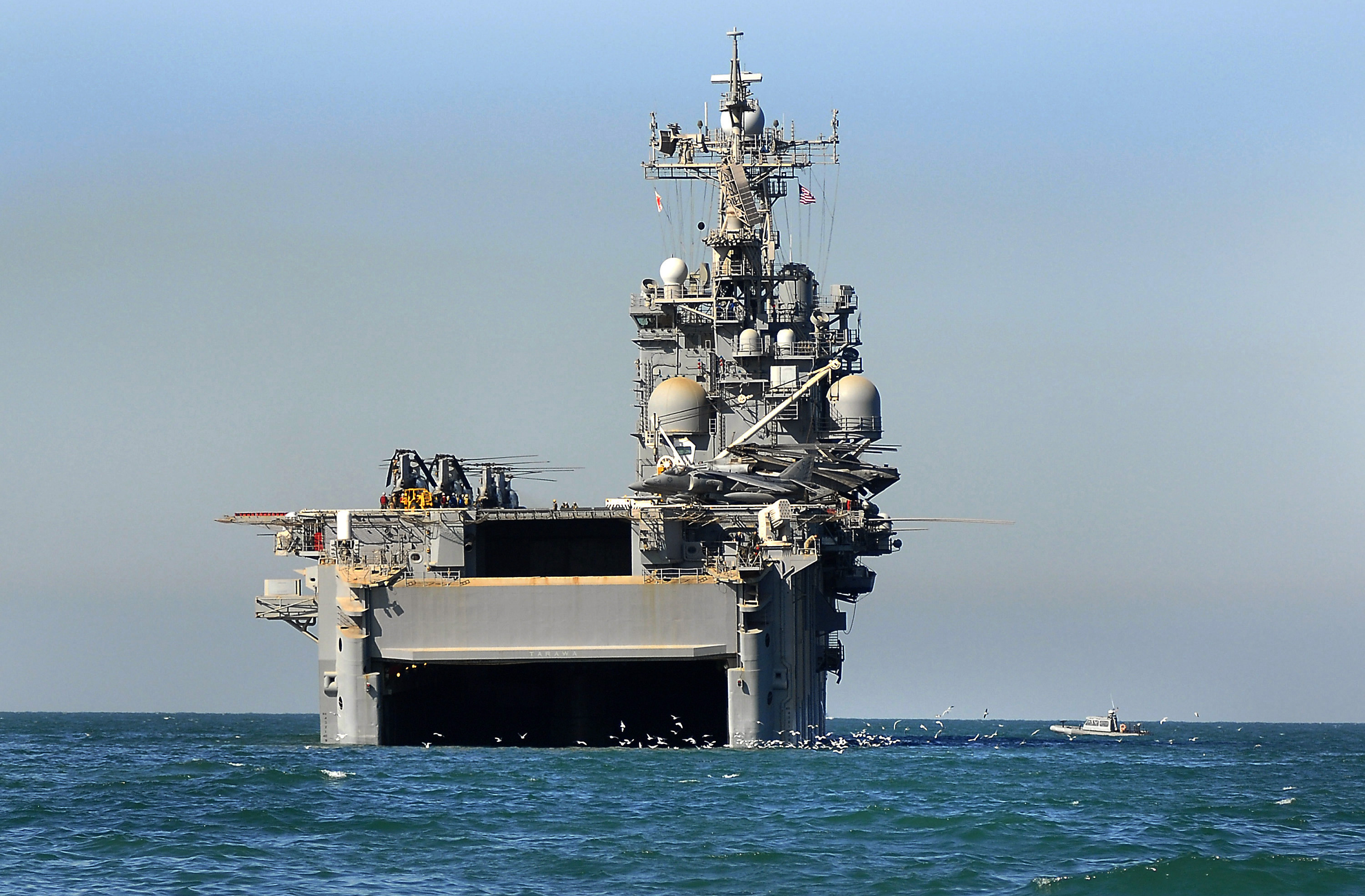 KUWAIT (Feb 4, 2008) Landing Craft Utility (LCU) 1630 leaves the well deck of the amphibious assault ship USS Tarawa (LHA 1) during small boat operations. The Tarawa Expeditionary Strike Group is deployed to the U.S. 5th Fleet area of responsibility and is working with coalition forces to maintain a naval and air presence in the region to deter destabilizing activities and safeguard the region's vital links to the global economy. U.S. Navy photo by Mass Communication Specialist 3rd Class Daniel A. Barker (Released)